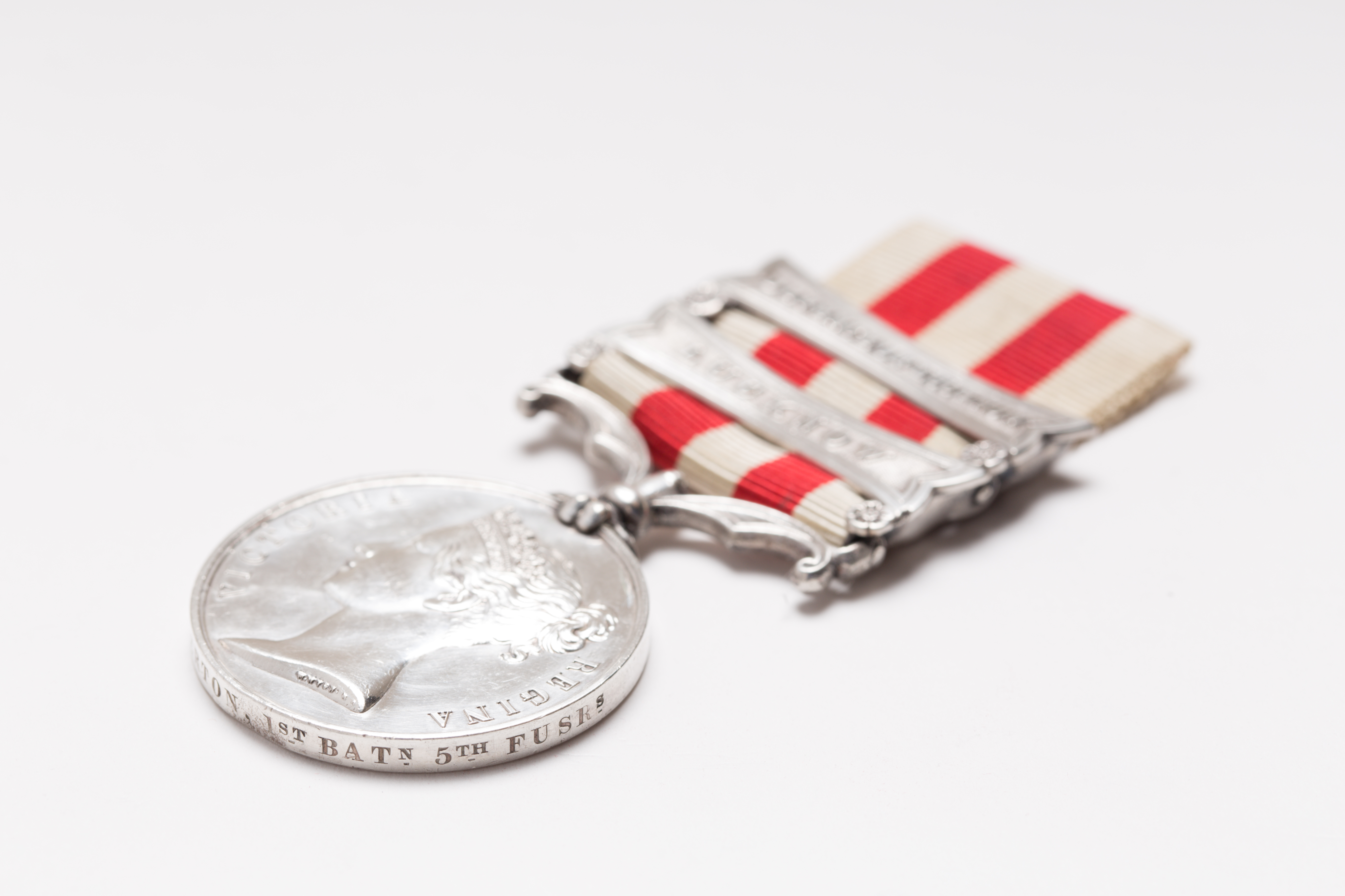 Indian Mutiny Medal 1857-58 with two bars Medal awarded to Corporal D Alderton, 1st Battalion, 5th (Northumberland Fusiliers) Regiment of Foot. silver medal; two bars; cusped swivel suspension bar; with ribbon and brooch bar obverse- diademed head of Queen Victoria with the legend VICTORIA REGINA reverse- a standing helmeted figure of Britannia holding a wreath in her outstretched right hand and over her left arm is the Union Shield; behind her is the British Lion and above the word INDIA; in the exergue are the two dates 1857-1858 ribbon- white with two 6mm scarlet stripes bars- DEFENCE OF LUCKNOW - LUCKNOW named on edge- CORPL D.ALDERTON. 1ST BATN 5TH FUSRS markings- obverse- medallist's name below VR shoulder reverse- medallist's name below lion's hind paw- L.C. WYON